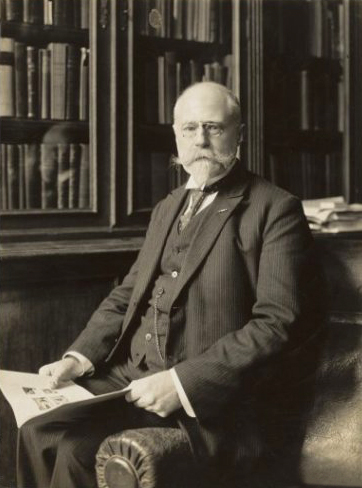 Pieter Cornelis Tobias van der Hoeven (1870-1953), professor of medicine in Leiden, in 1928